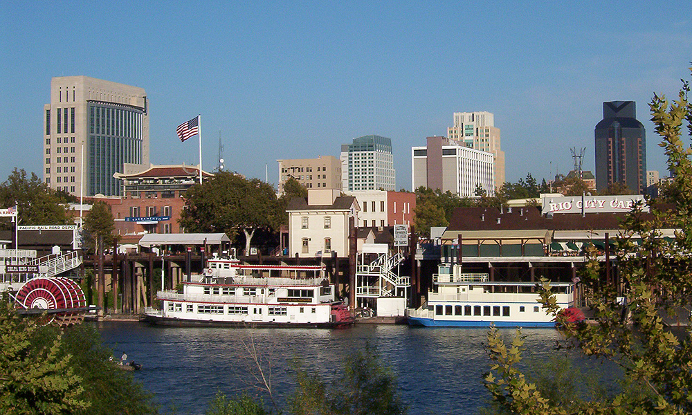 This is a picture of the Sacramento Riverfront. The image was designed to replace the image used in the Sacramento article that was removed due to missing copyright information.